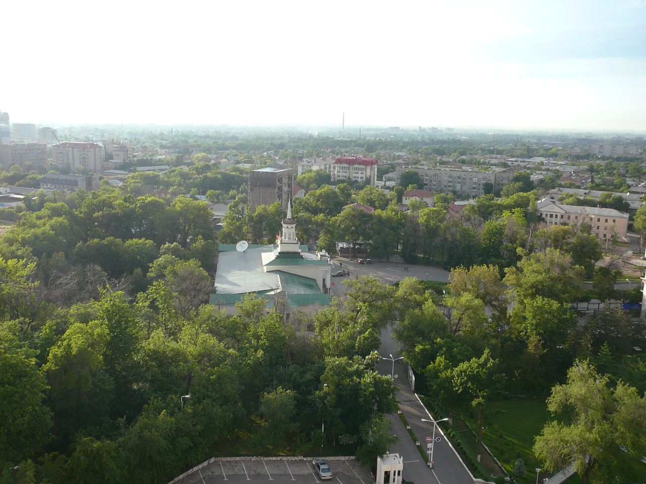 Bishkek